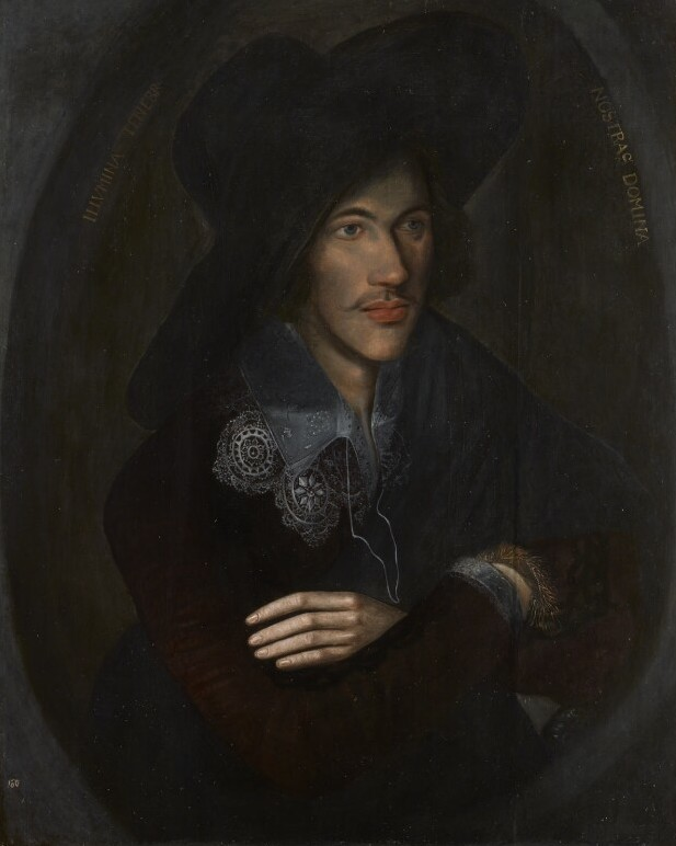 Portrait of the English poet and cleric John Donne (1572–1631), by an unknown English artist